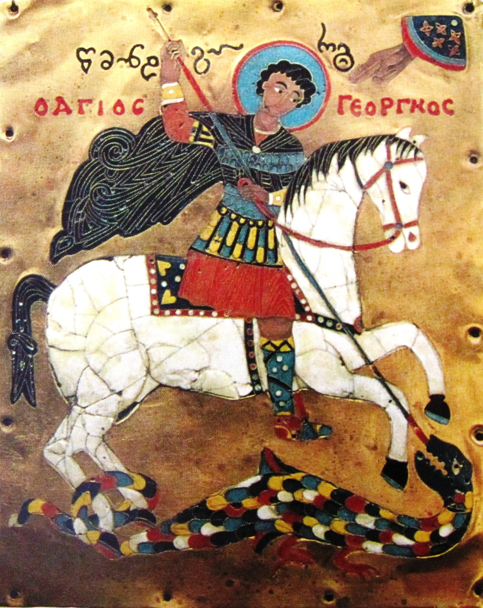 Plaque portraying St George slaying the Dragon. 15th century cloisonné enamel on gold. 15X11,5 cm (National Art Museum of Georgia) It is a Georgian icon from the 12th or 13th century. It is cloisonne' enamel on gold. The original is about 4"x5-1/4". It is from the Georgian State Museum of Fine Arts. The inscription is in ancient Georgian and Greek.